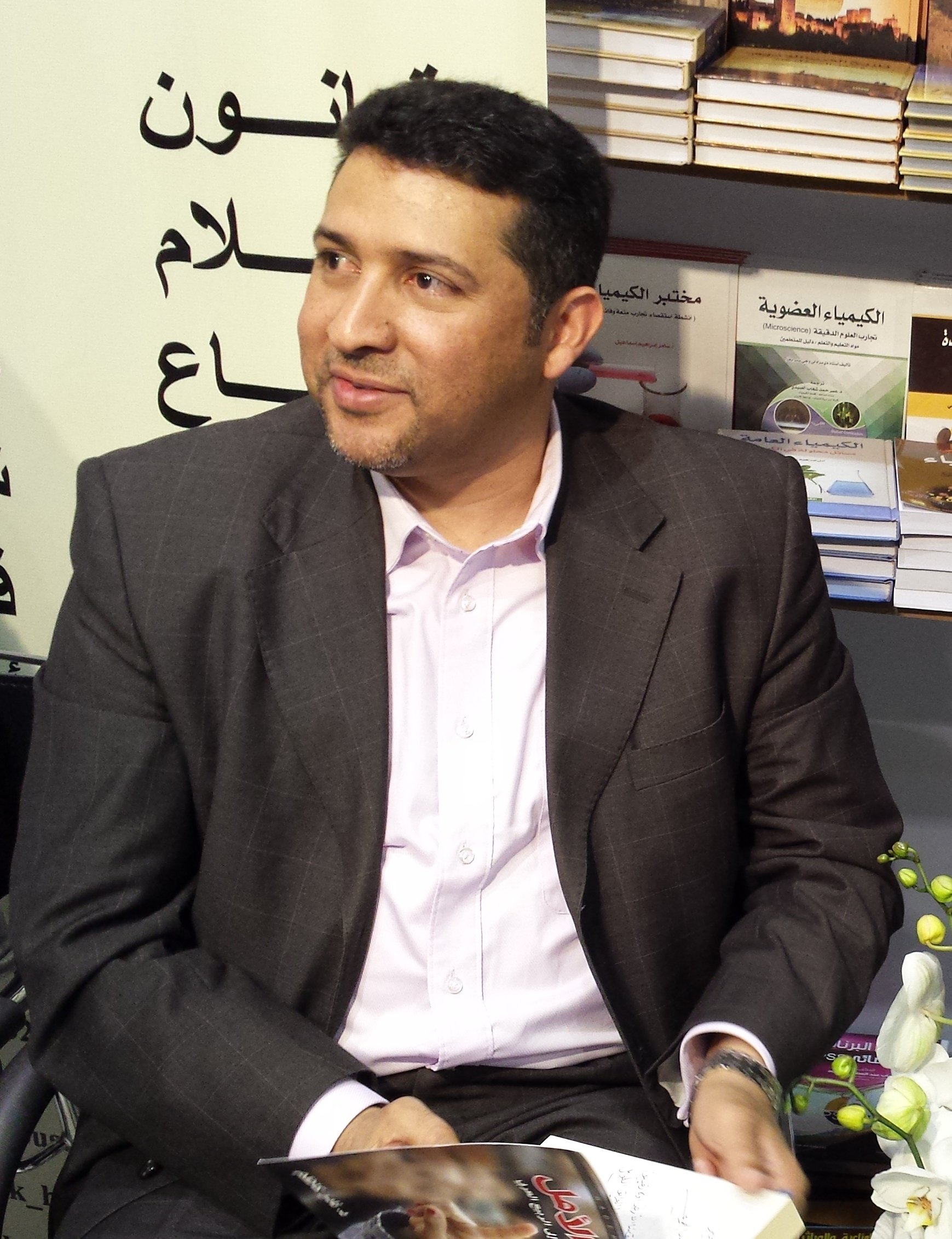 Dr. Nader Kadhim signing a copy of his newly released book Saving hope: the long way to the Arab Spring in the Bahrain 2014 book fair.